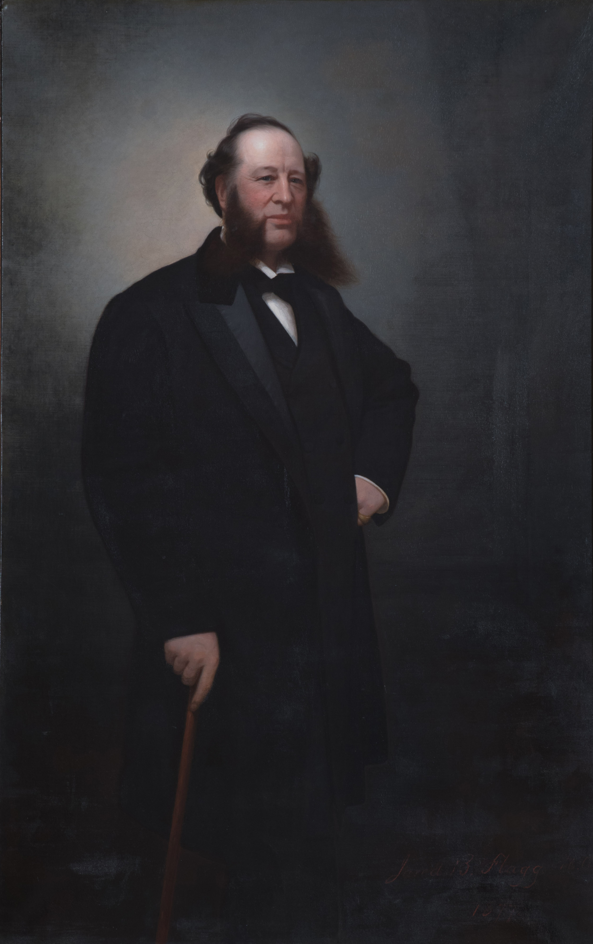 William Henry Vanderbilt (May 8, 1821 – December 8, 1885) was a businessman and a member of the prominent United States Vanderbilt family.